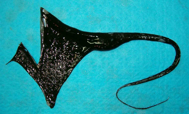 Eurypharynx pelecanoides